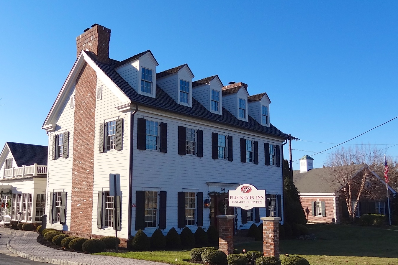 Pluckemin Inn Tavern Contributing property to Pluckemin Village Historic District